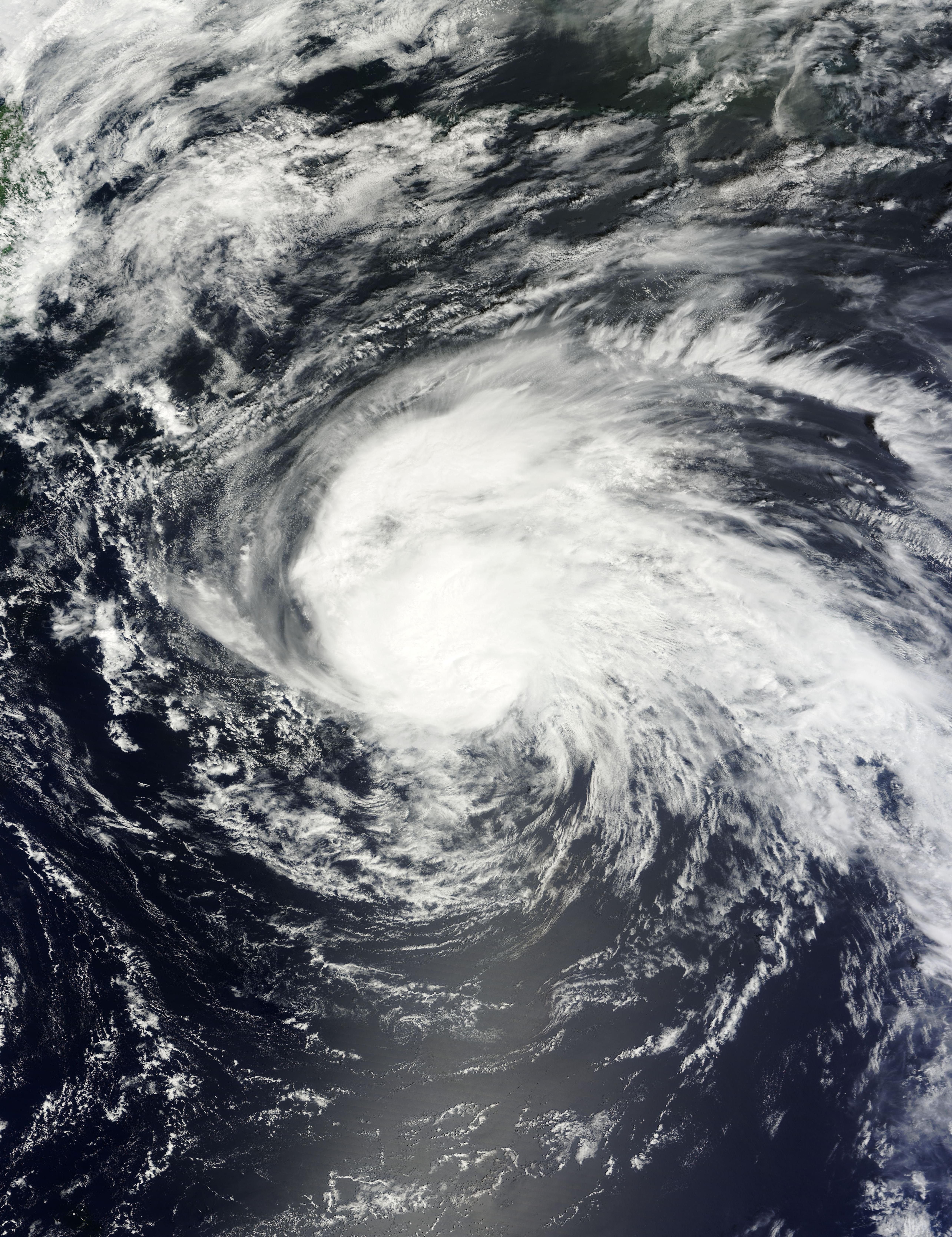 Tropical Storm Kompasu during the time it was upgraded into a tropical storm by the JMA, on August 20, 2016